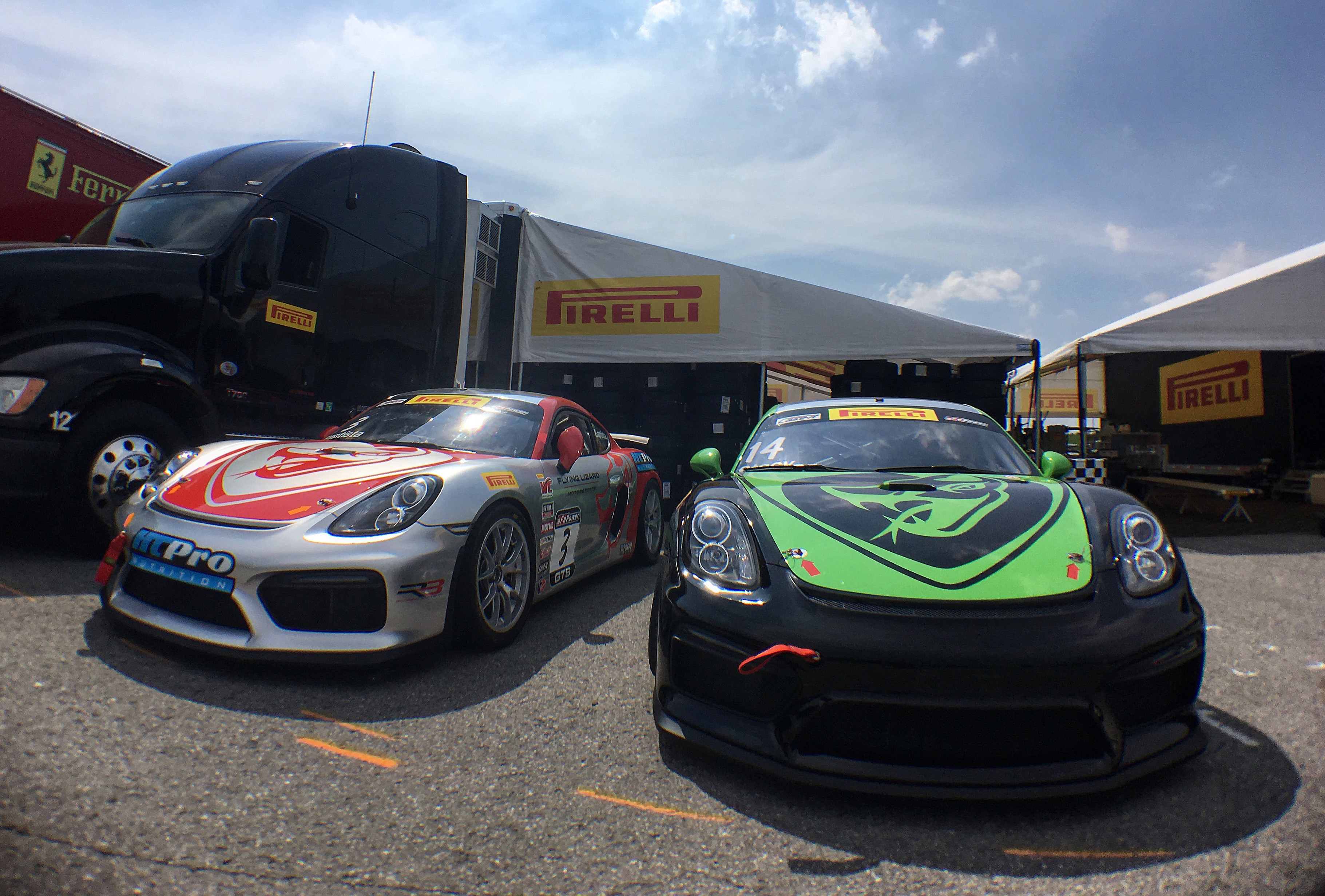 The Flying Lizard Motorsports Porsches of Rodrigo Baptista and Nate Stacy, competing in the Pirelli World Challenge.